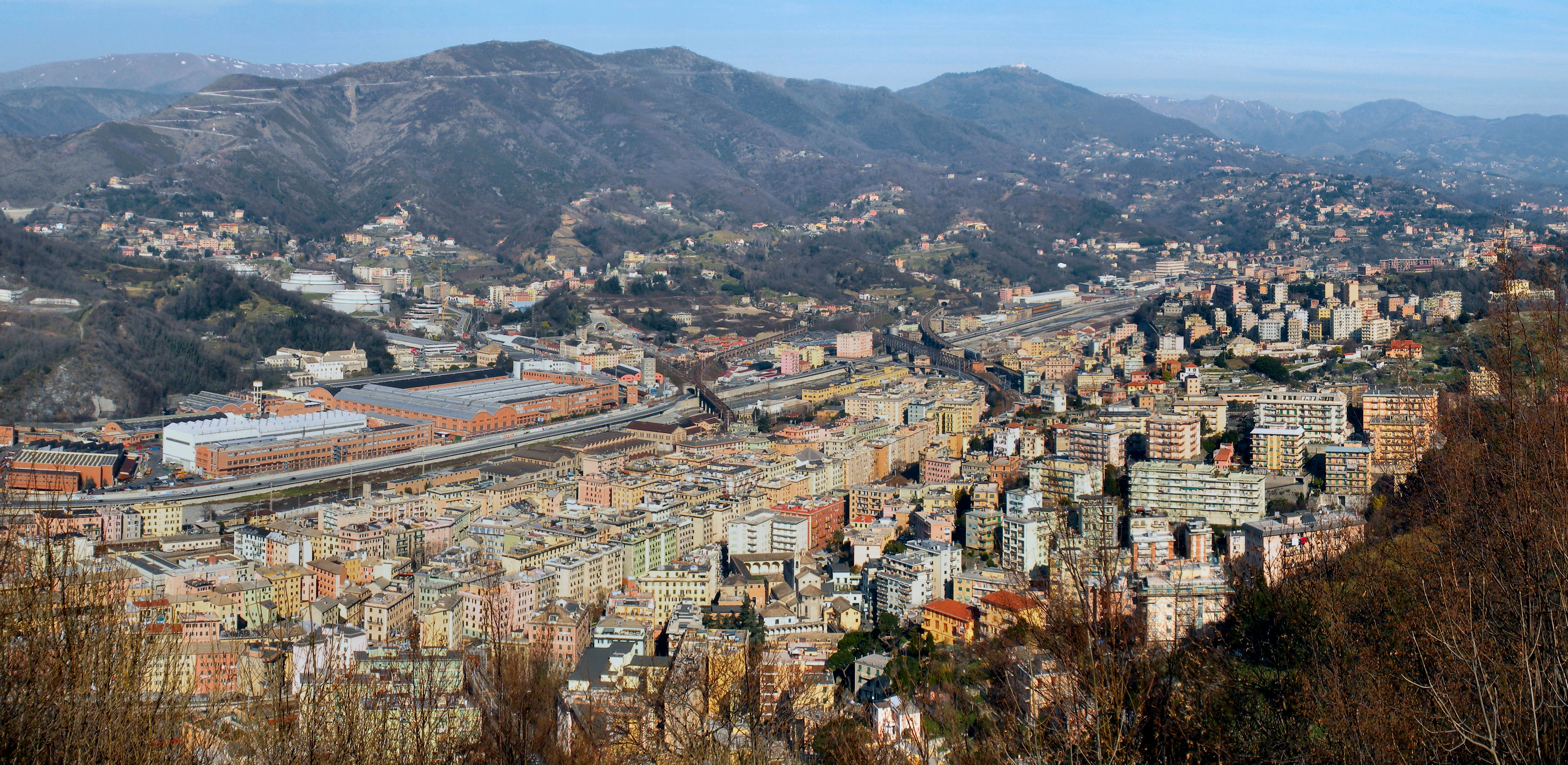 Genoa, Italy, view of the quarter of Rivarolo from fort Crocetta